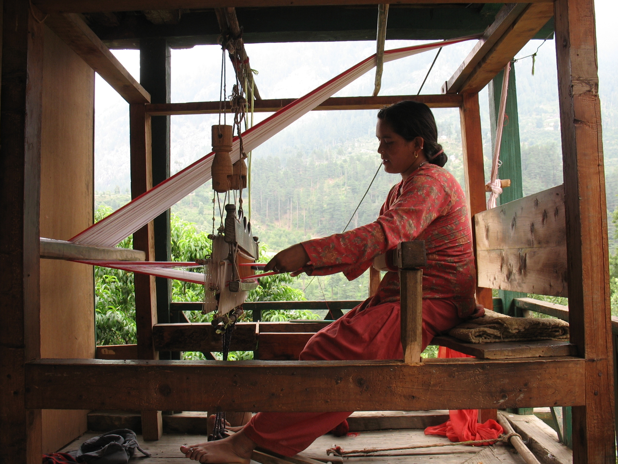 A woman weaving in a village named Jari in north India